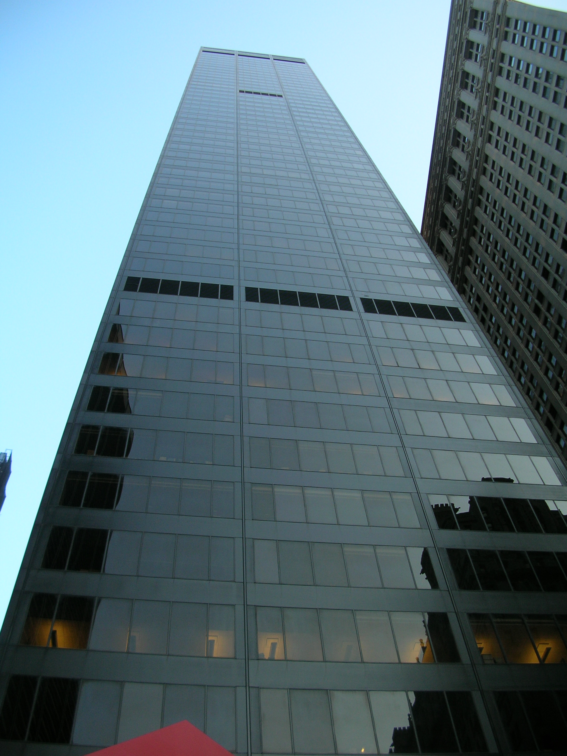 This photo is of Wikis Take Manhattan goal code H16, Marine Midland Building.